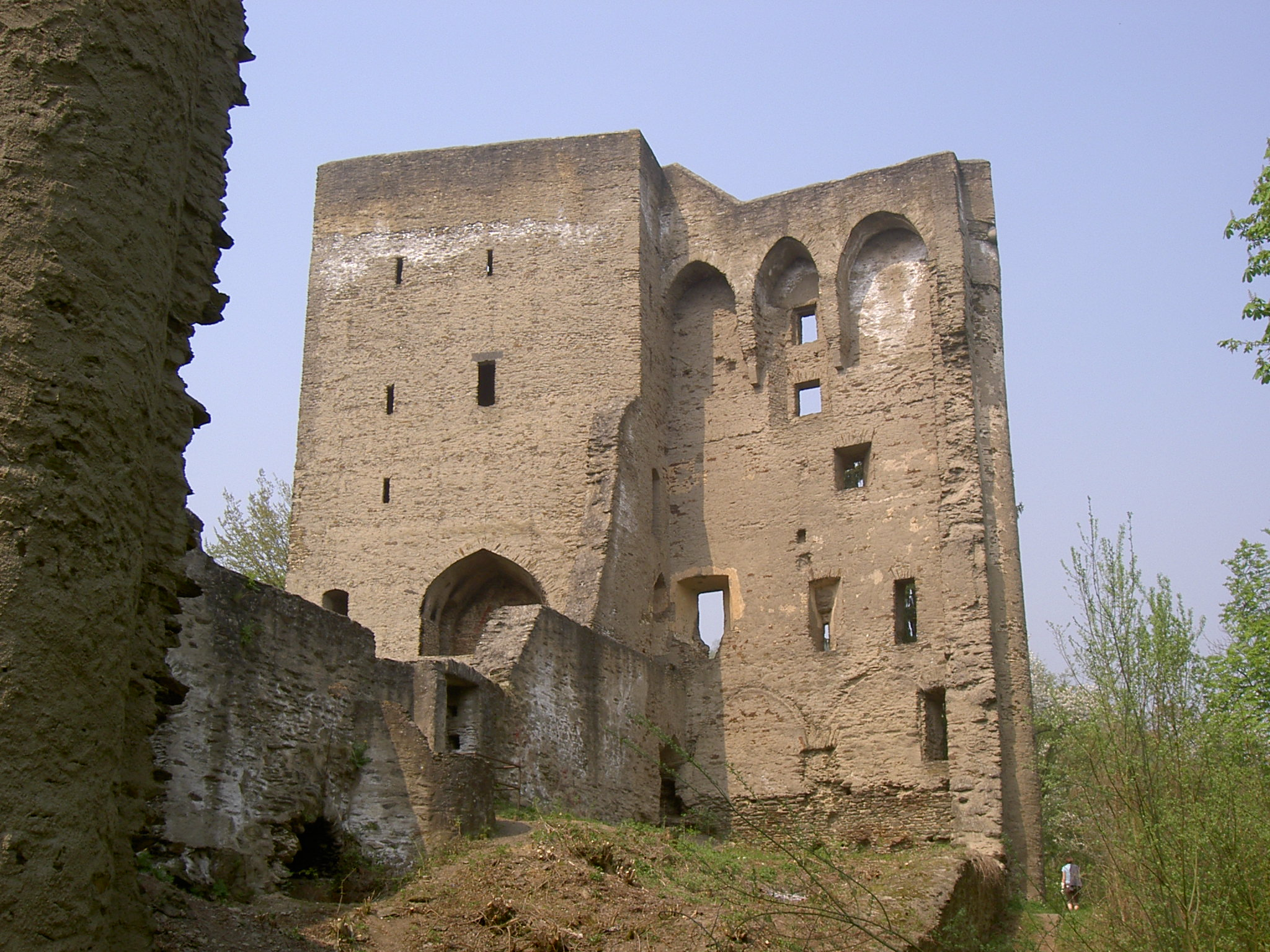 ruin of Sporkenburg castle above the Emsbach valley, near Eitelborn (Rhineland-Palatinate, Germany)